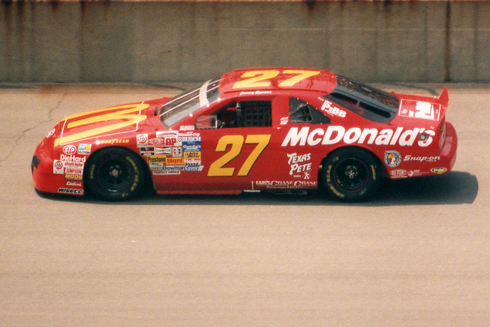 Michigan International Speedway – June 1994 Film Scan; Canon AE-1